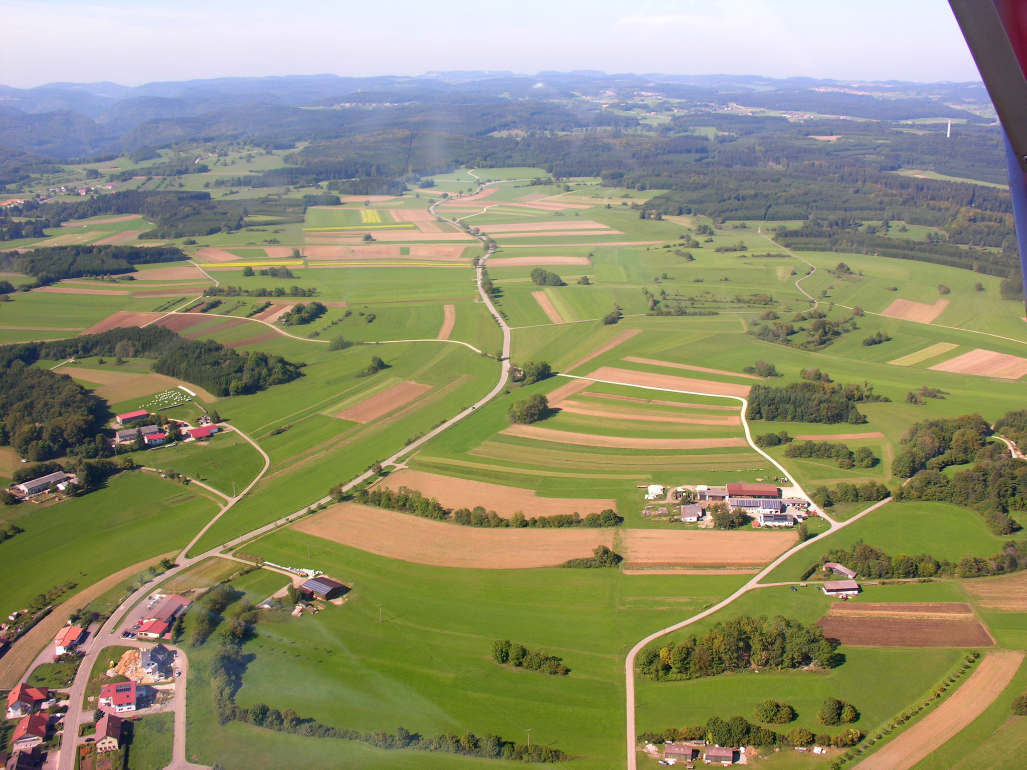 Germany, Baden-Württemberg, Aerial view of overhead Irndorf